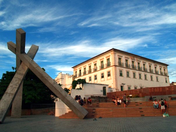 Fallen cross monument at the site of the demolished colonial cathedral of Salvador, Bahia, Brazil. The large building at the background is the colonial Bishop's palace.